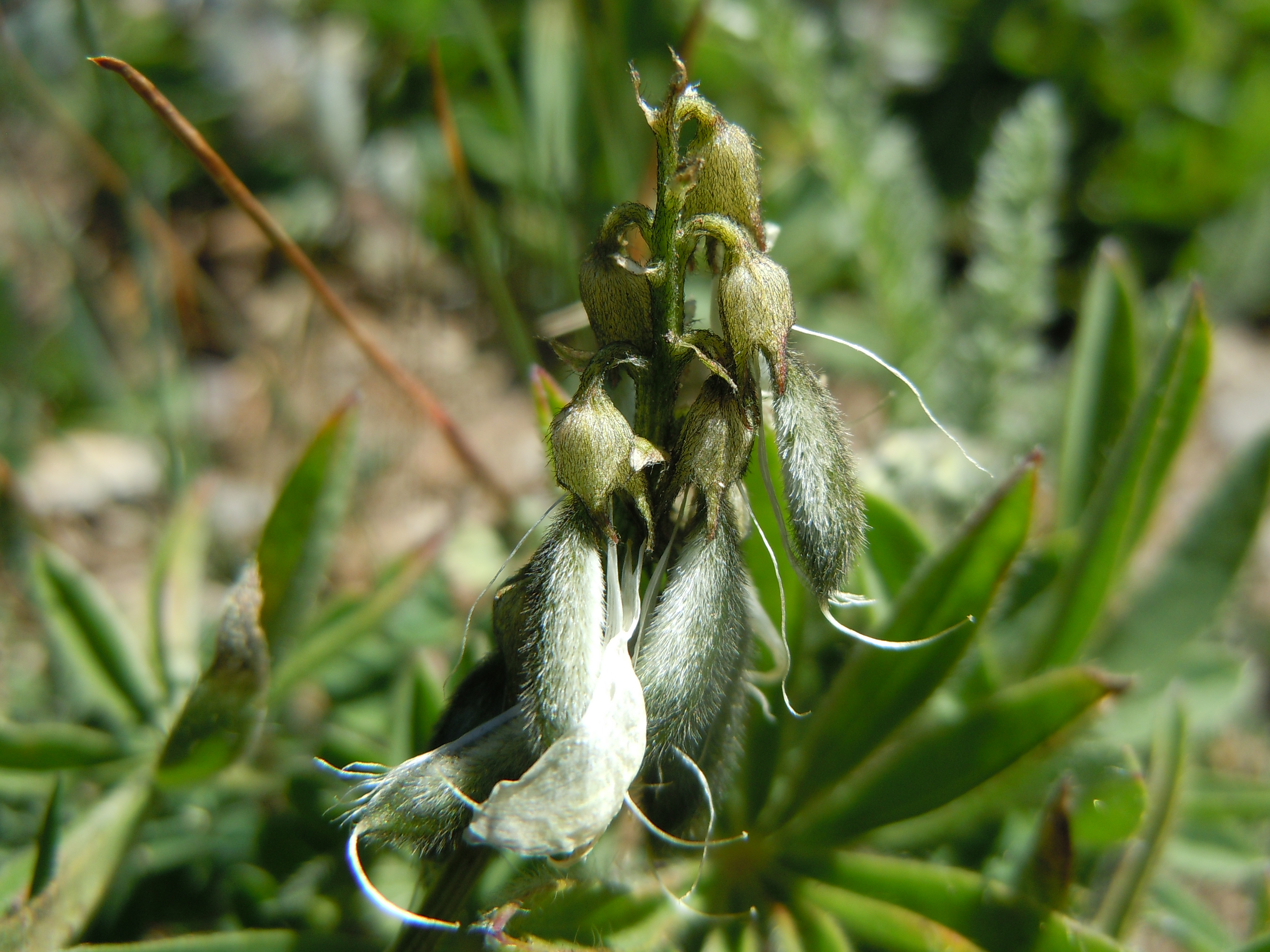 Astragalus alpinus seems to be restricted in alpine settings to where vegetation cover is relatively dense, as if on or near a seep.